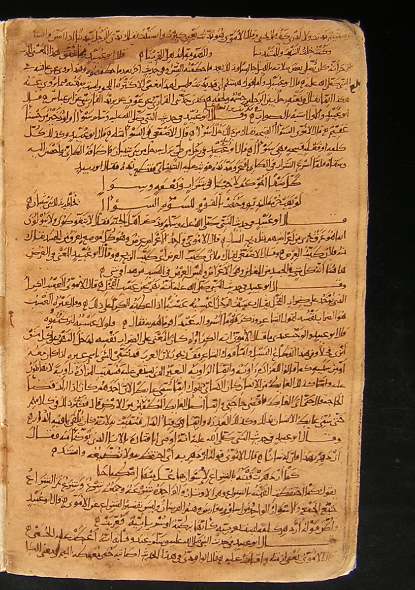 Gharib al-Hadith, by Abu `Ubayd al-Qasim b. Sallam al-Harawi (d. 223/837). The oldest known dated Arabic manuscript on paper in Turkey libraries (dated 319 (931 AD)).